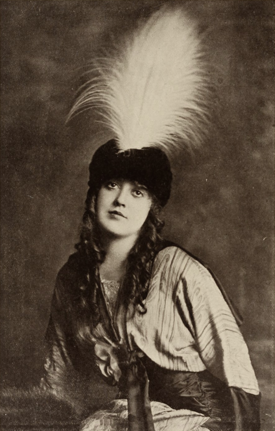 Actress Mabel Normand